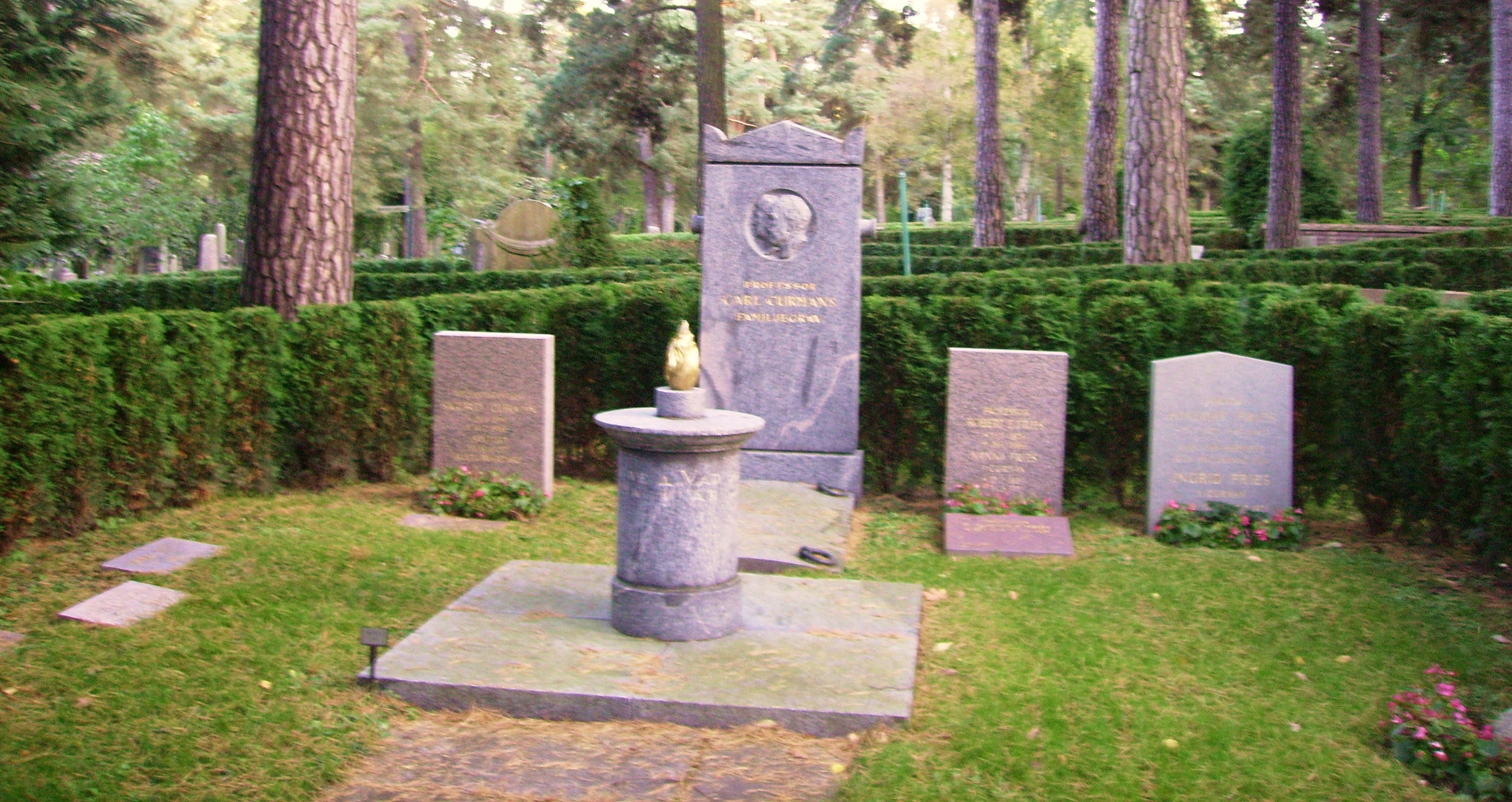 Picture of Curman family's grave at Norra begravningsplatsen in Stockholm